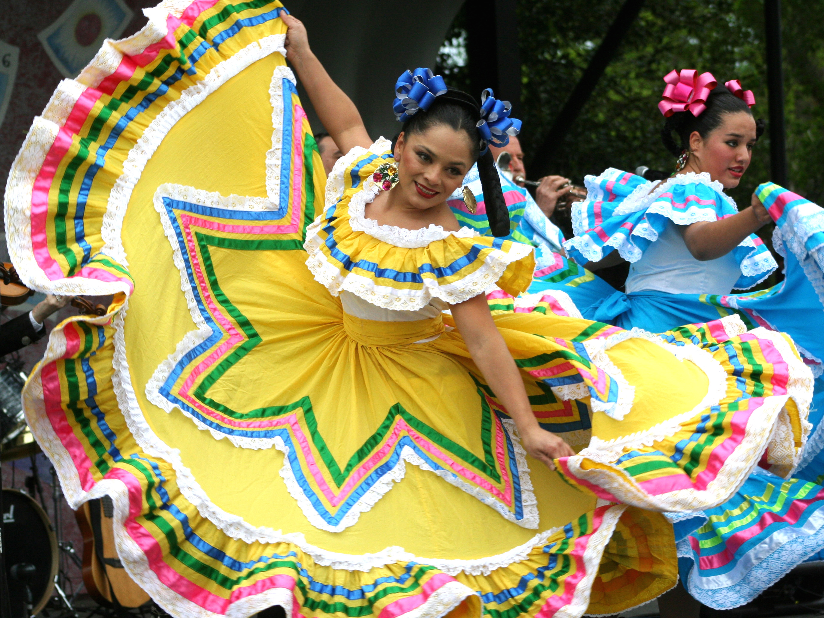 Dancers at the annual Cinco de Mayo Festival in Washington, D.C.